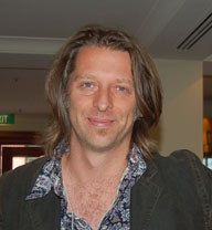 Australian authors Paul Haines and Karen Miller, at Convergence 2, the Australian National Science Fiction Convention in 2007. Photographed by Catriona Sparks.